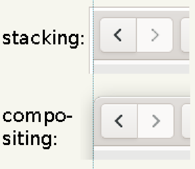 Window border under compositing vs stacking This PNG graphic was created with GIMP.